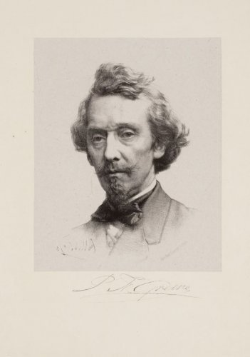 Portrait of Petrus Franciscus Greive